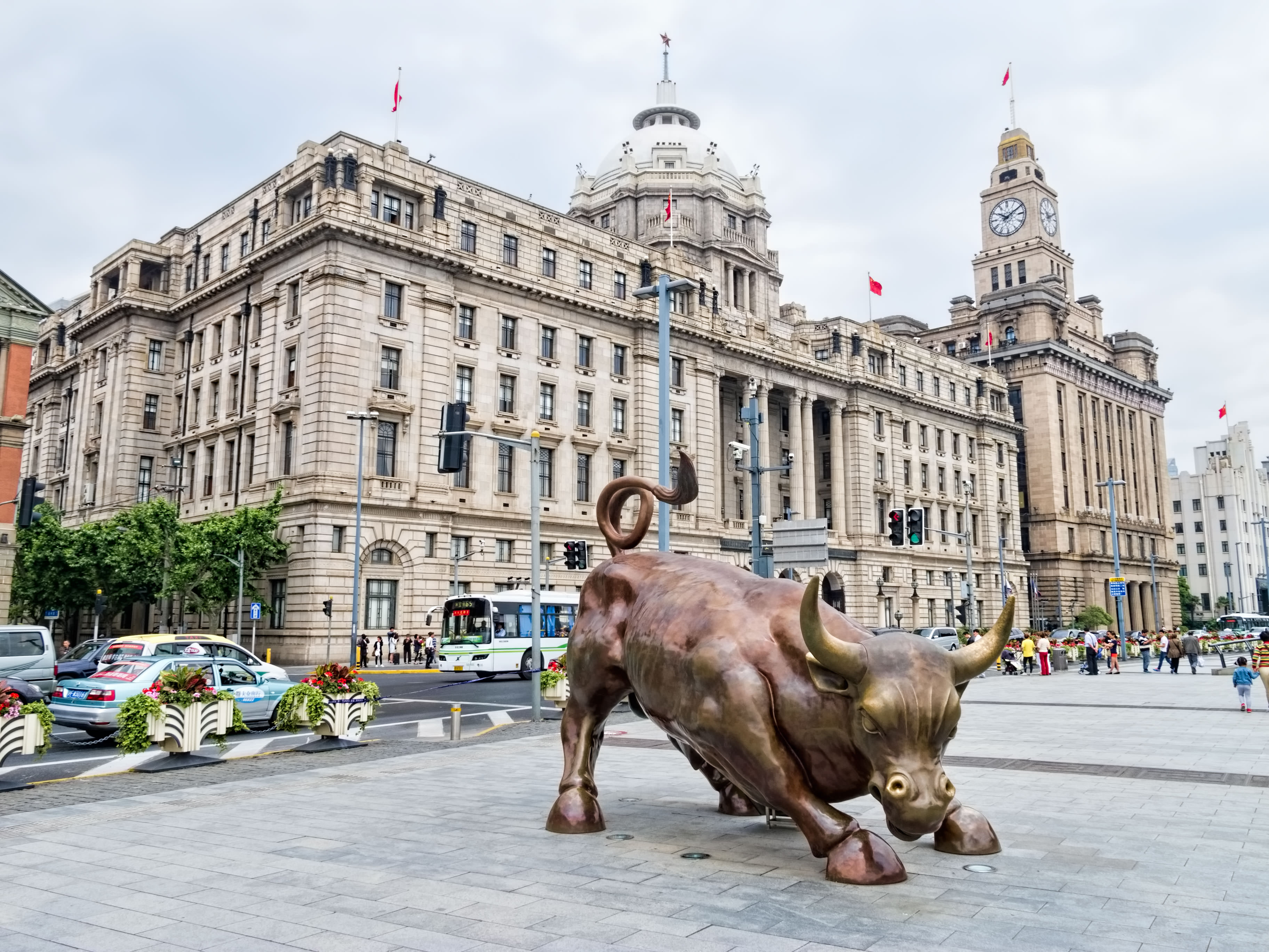 The Bund (rhymes with ‘fund’) Financial Square features a bull statue (installed 2010) by sculptor Arturo Ugo Di Modica who also did the Wall Street Charging Bull in New York (from 1989). In the background on the left is The Hongkong & Shanghai Banking Corporation [known now as HSBC] Building completed in 1923 which houses the Shanghai Pudong Development Bank today. On the right with the clock tower is the Customs House built in 1927. On Google Earth: bull statue 31°14'14.92"N, 121°29'10.71"E Hongkong & Shanghai Bank Building 31°14'16.78"N, 121°29'8.18"E Customs House 31°14'19.14"N, 121°29'7.82"E